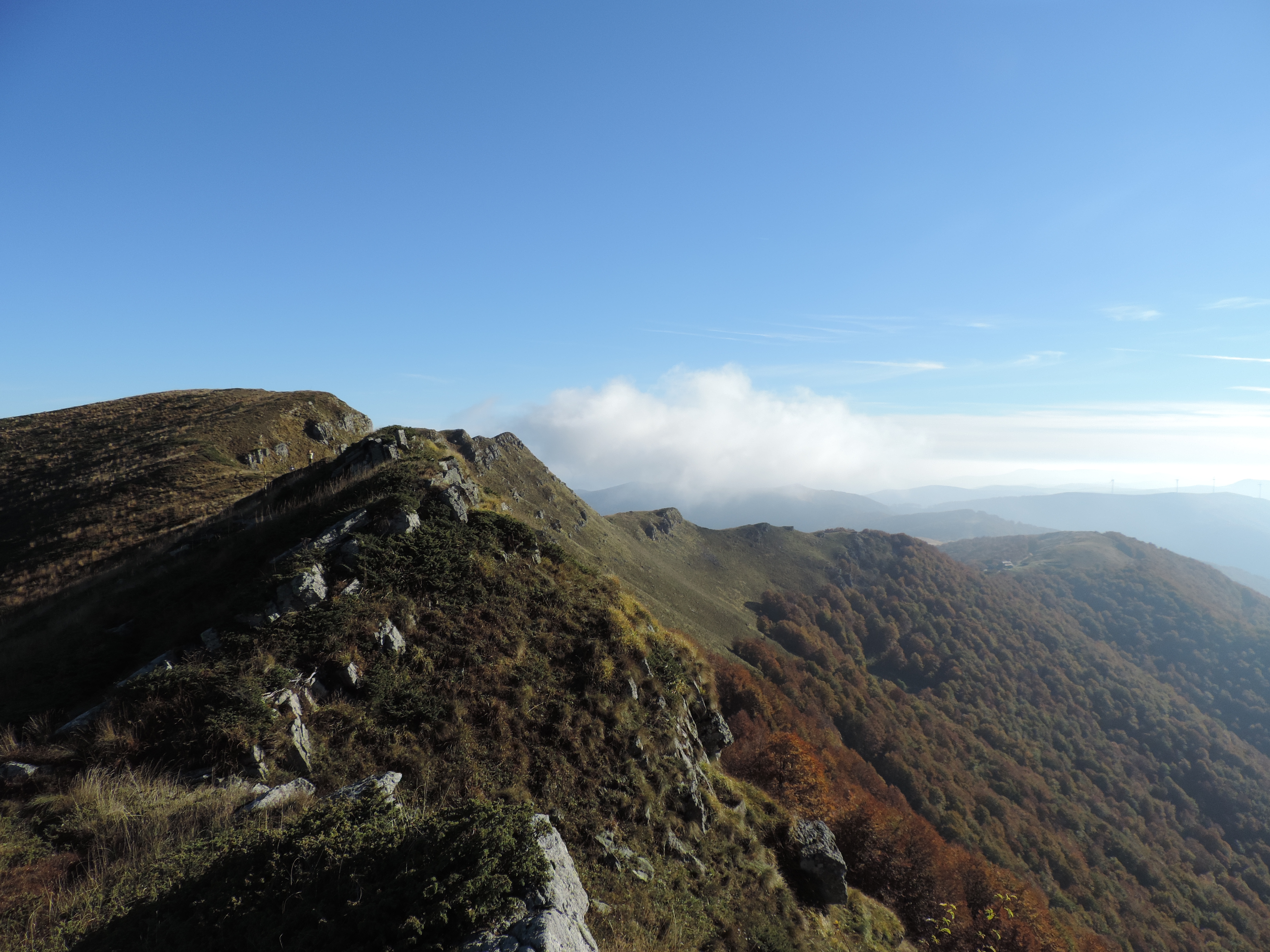 Peeshti skali reserve, Bulgaria